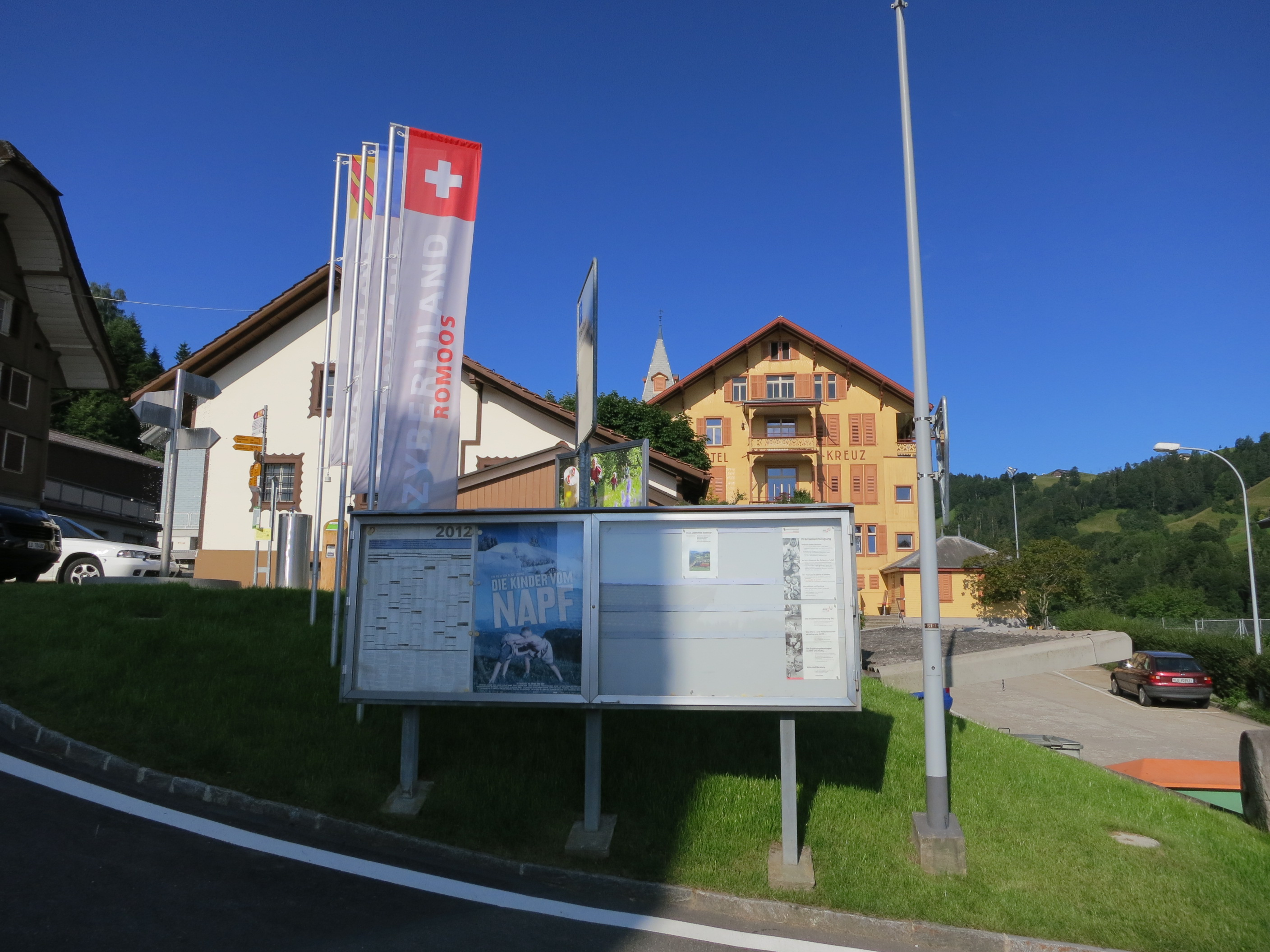 Romoos LU, Schweiz